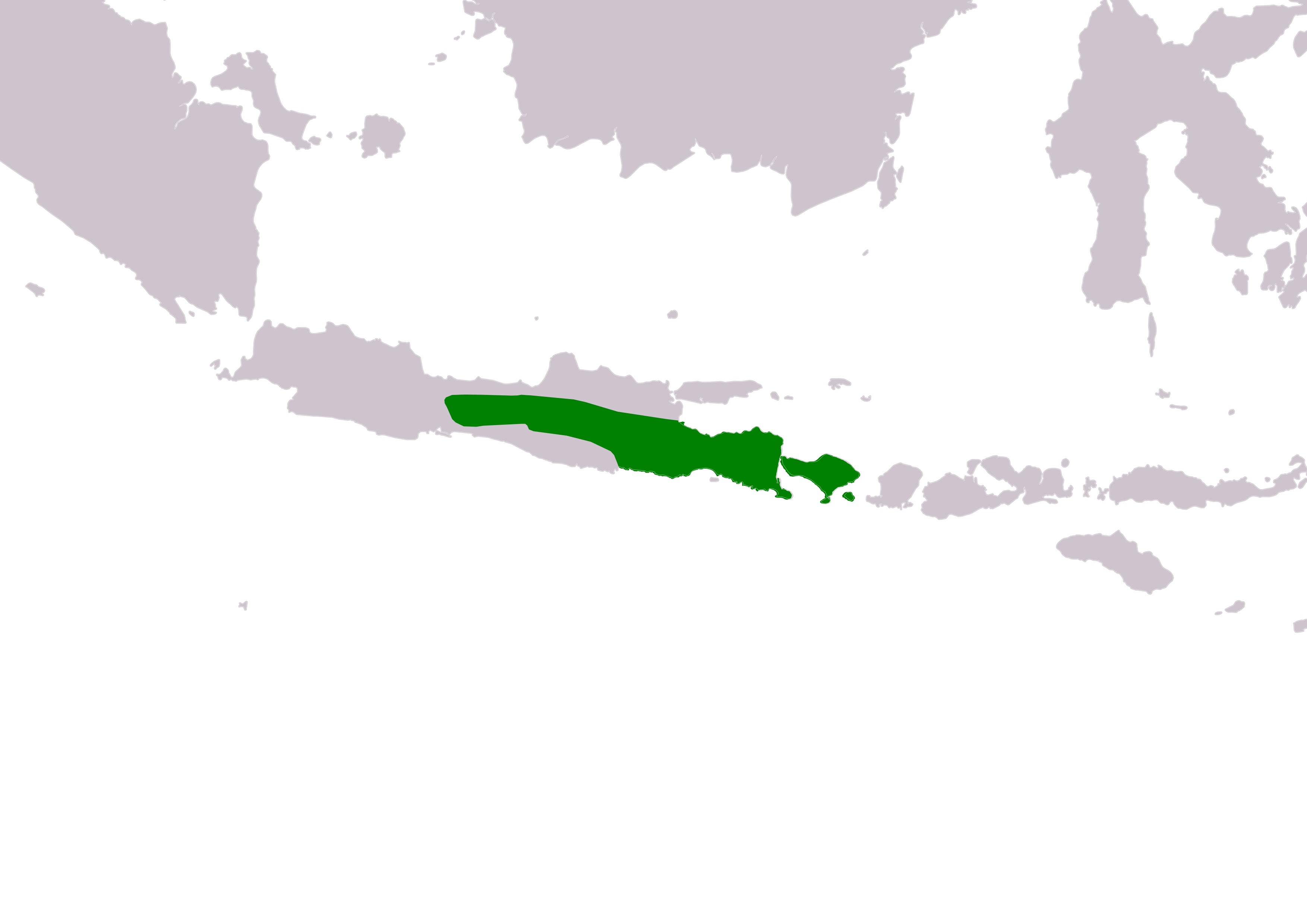 Distribution map of javan owlet (Glaucidium castanopterum) according to IUCN version 2019.2; key: Legend: Extant, resident (#008000)